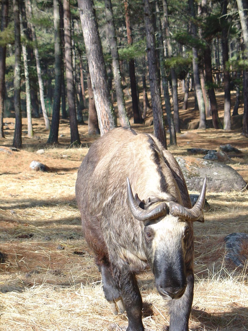 Takin coming our way